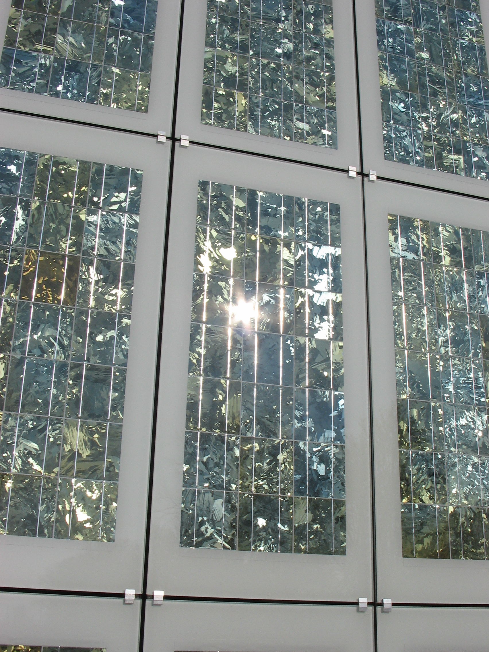 polycrystalline solar-cells found at Tübingen's sportshall